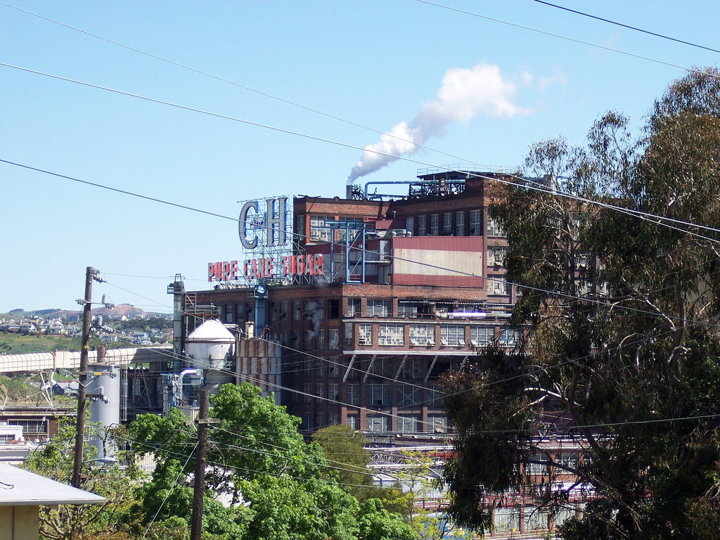 Picture of C & H Sugars Crockett refinery. Taken from Star St. in Crockett, Ca on April 16 2006